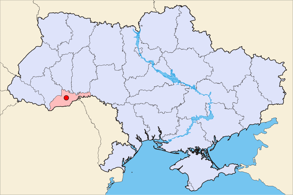 Chernivtsi geographical position